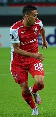 Sabien Lilaj